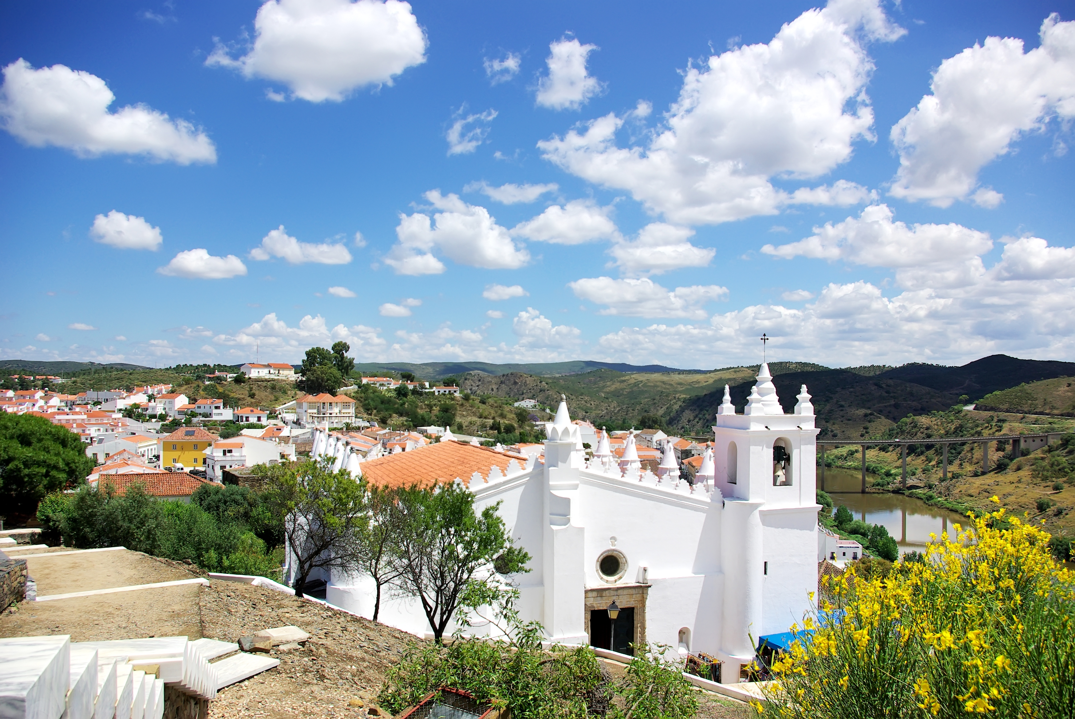 This file was uploaded for Wiki Loves Monuments in Portugal with the unique identifier 70163.